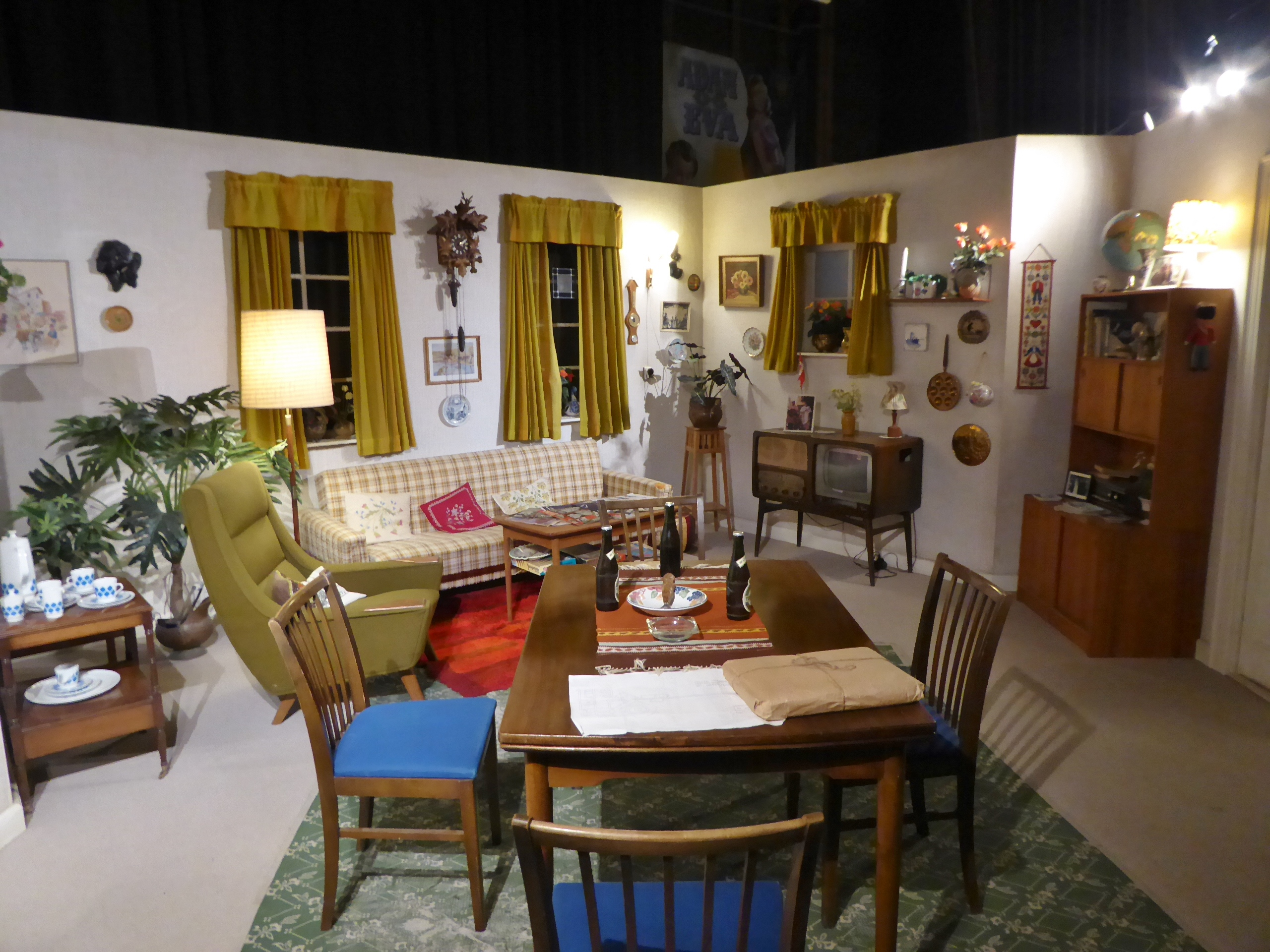 Recreation of the living room of Kjeld and Yvonne from the Danish Olsen-banden film series in a special exhibition at Nordisk Film in Copenhagen. The actually sets from the 1970s was scrapped when the making of each movie was finished. The living room had to be recreated at least eight times whenever a new movie went into production.